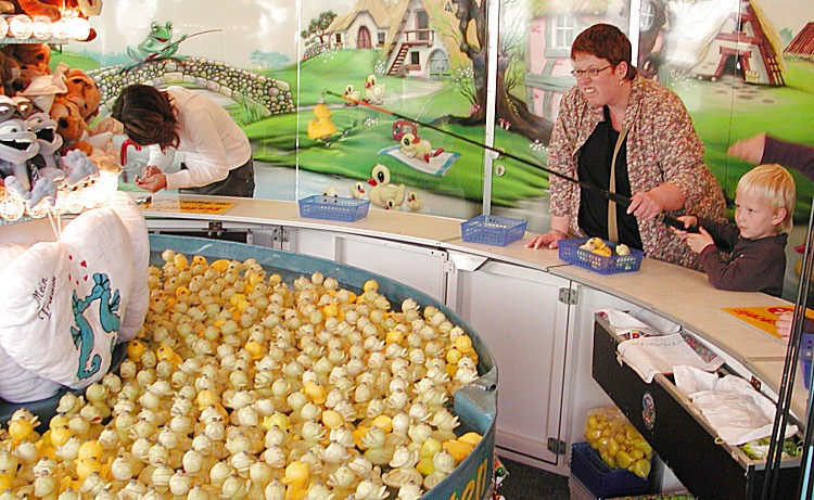 Duck-fishing on the Roonkarker Mart-funfair